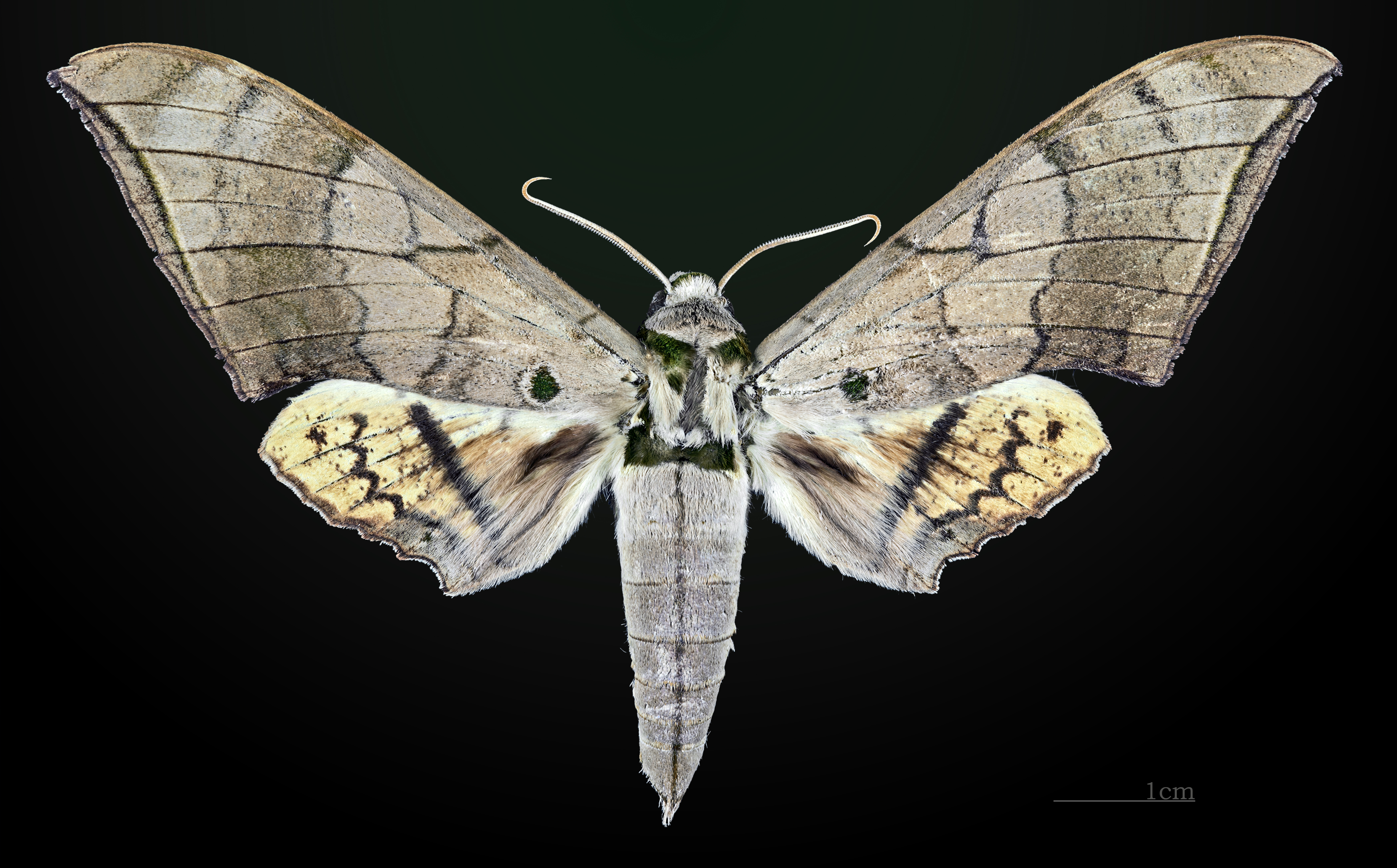 Ambulyx wildei - Dorsal side Collection of the Mathematician Laurent Schwartz